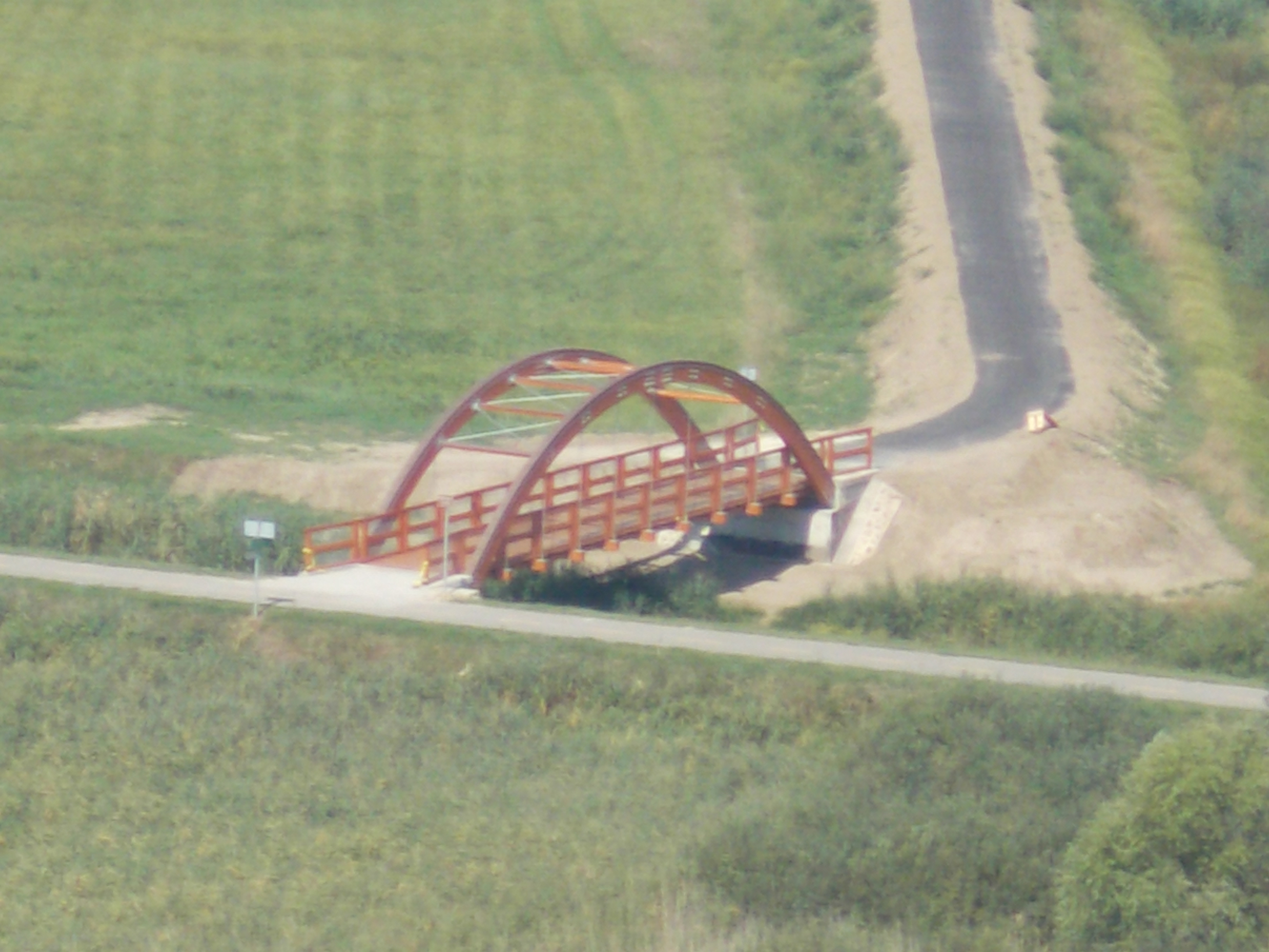 View from Várhegy hill lookout. - Tamási, Tolna County, Hungary